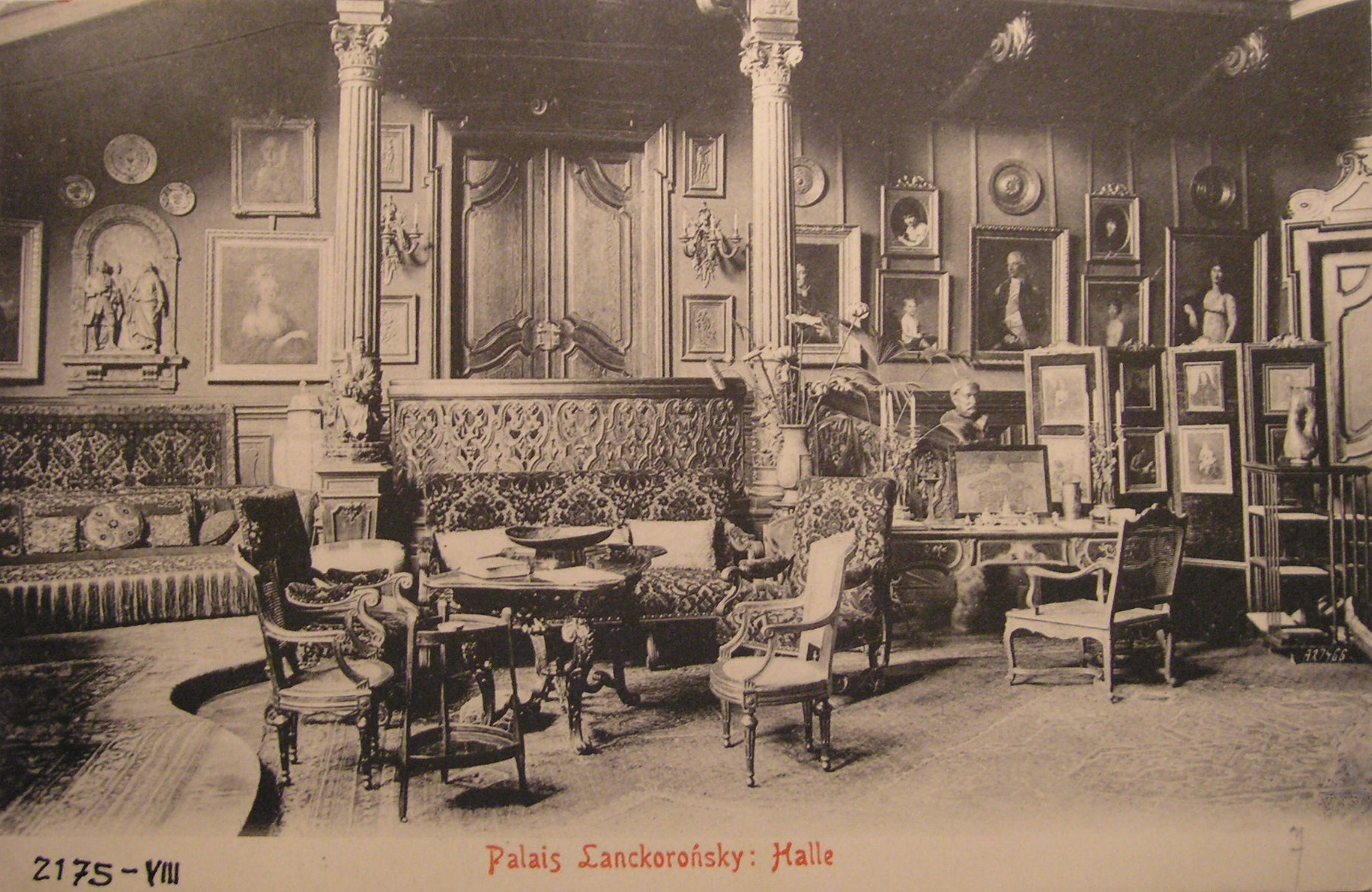 Image of the Palais Lanckoroński in Vienna, which was the private residence of Count Lanckoroński and his vast art collection, which was open to the public. The image is part of a post-card series that were made specifically for the building and its collection.